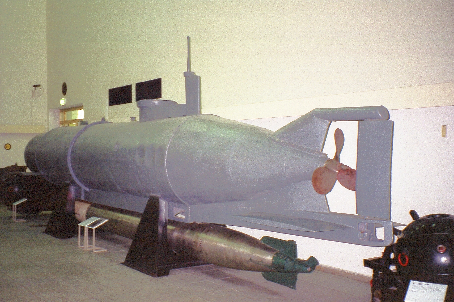 Midget submarine Typ HECHT Dresden 13.10.96